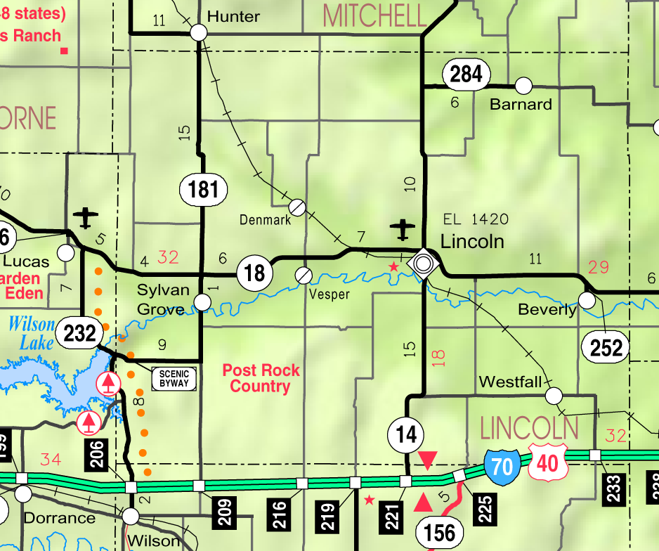 This map of Lincoln County, Kansas, USA, is copied at a resolution of 300 pixels/inch from the original PDF file.